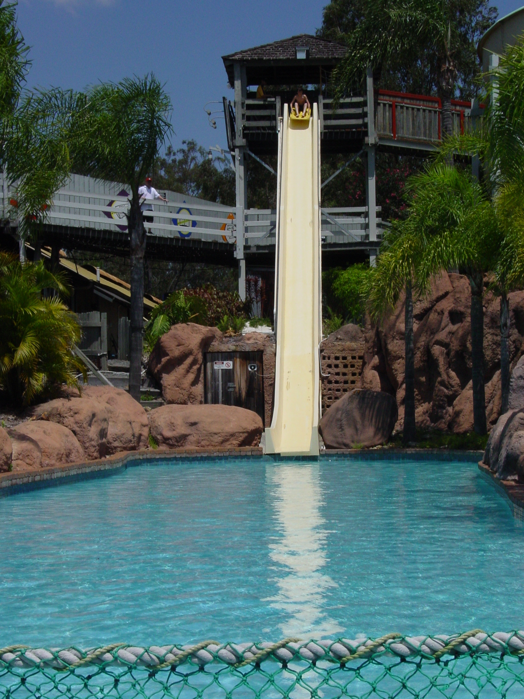 The Toboggan ride formerly located at the Blue Lagoon water park within Dreamworld.